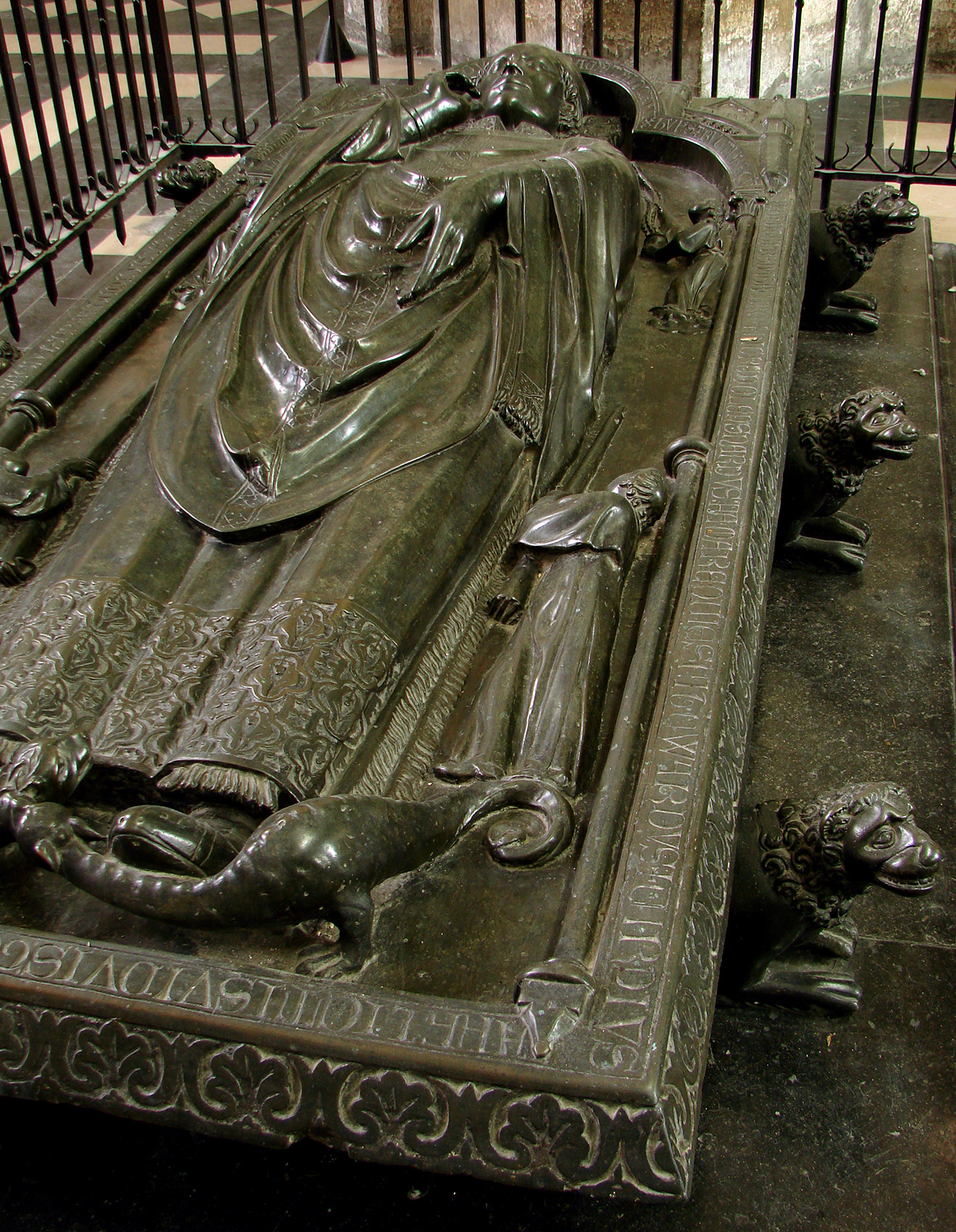 Recumbent figure of Evrard de Fouilloy, bishop of Amiens (1211-1222), bronze, 13th century, in Amiens Cathedral.